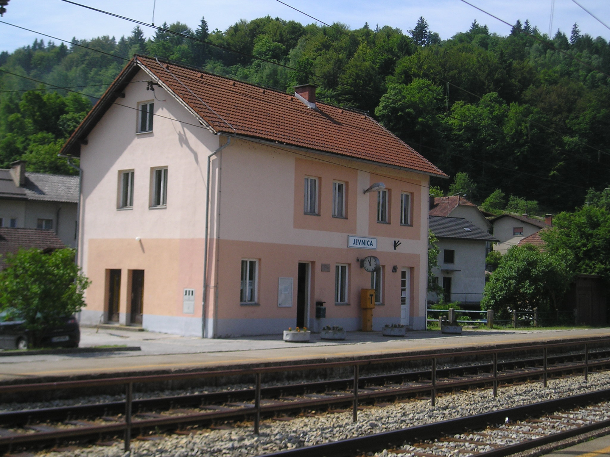 Railway halt in Jevnica, Slovenia